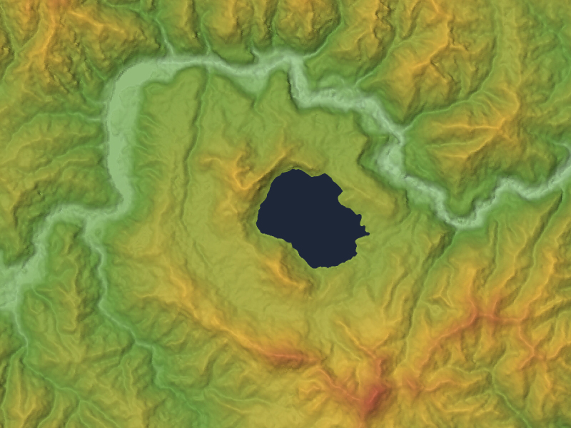 Numazawa Volcano's Numazawako Caldra in Fukushima Prefecture, Honshu, Japan.